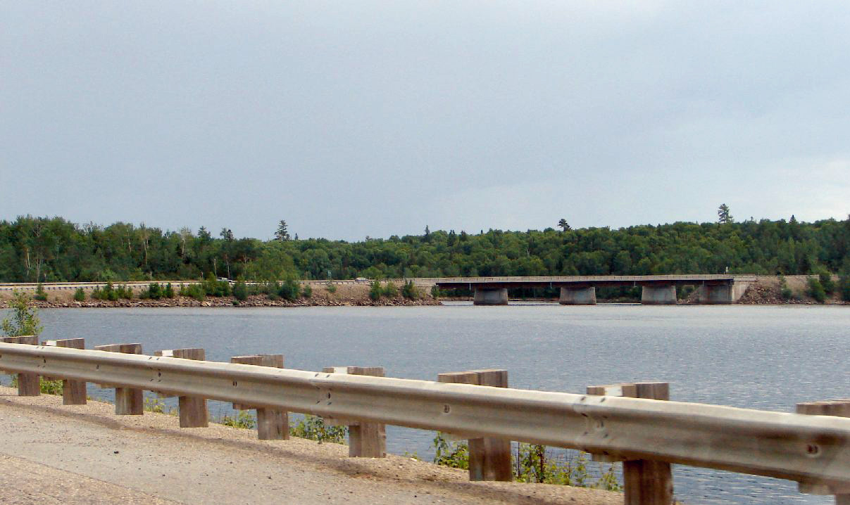 Highway 117 at Reservoir Dozois and the Ottawa River, Quebec, Canada